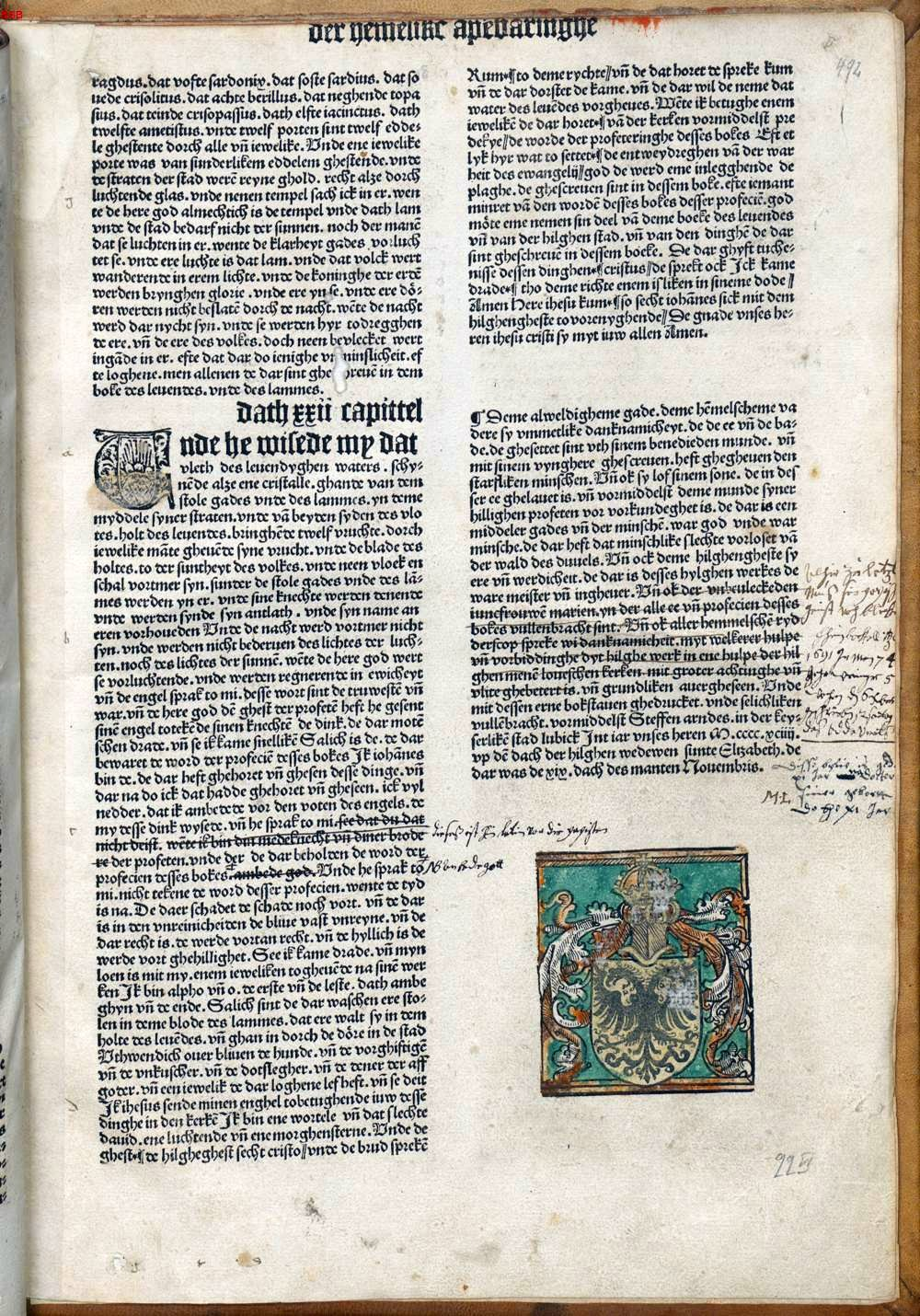 End page of the Lübeck Bible (1494), showing the end of the book of revelation and the printer Steffen Arndes' kolophon